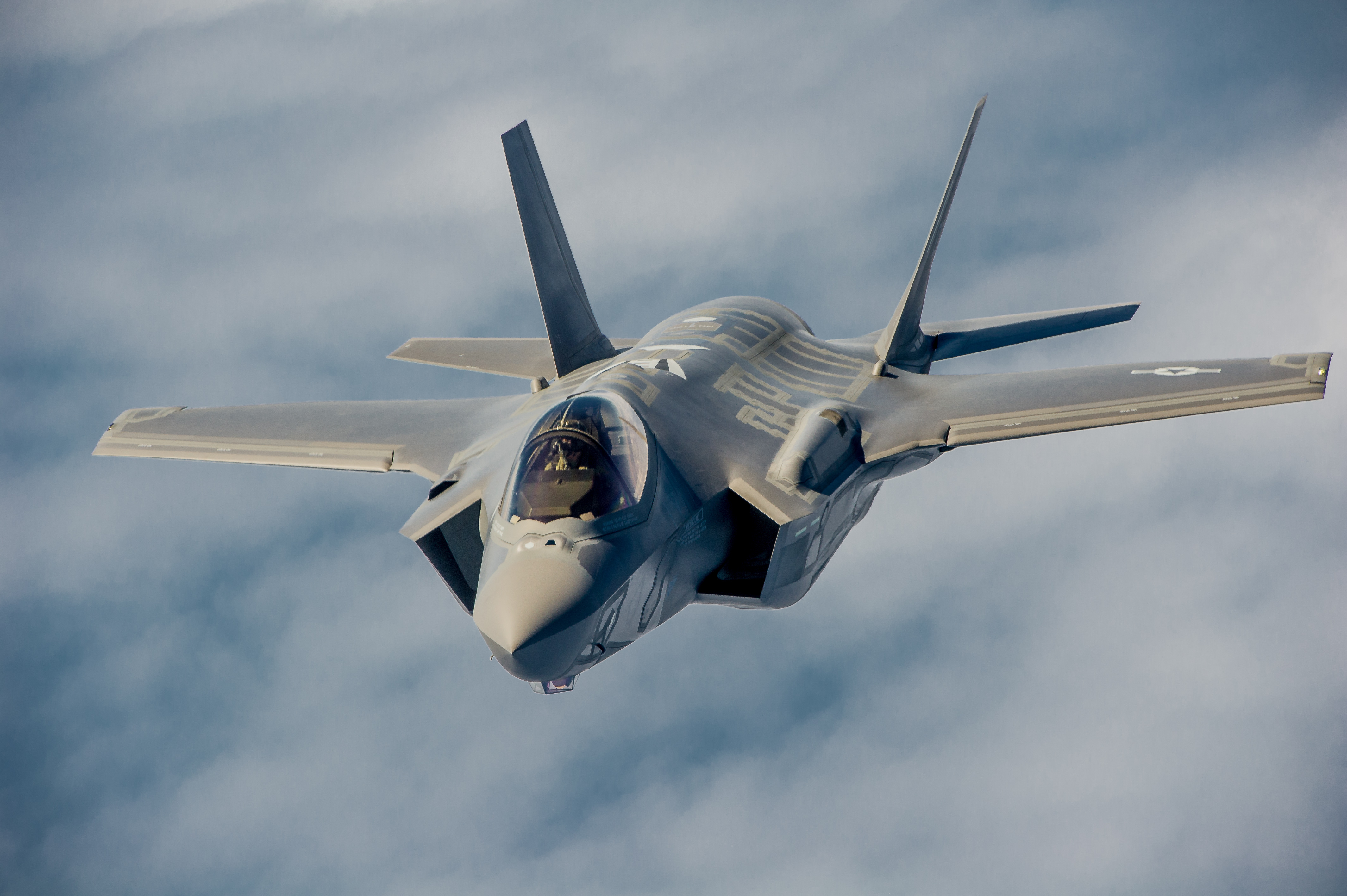 A U.S. Air Force pilot navigates an F-35A Lightning II aircraft assigned to the 58th Fighter Squadron, 33rd Fighter Wing into position to refuel with a KC-135 Stratotanker assigned to the 336th Air Refueling Squadron over the northwest coast of Florida May 16, 2013. The F-35 Integrated Training Center was established at Eglin Air Force Base and was responsible for conducting student pilot training and maintainer training for Airmen, Marines and Sailors responsible for the aircraft.